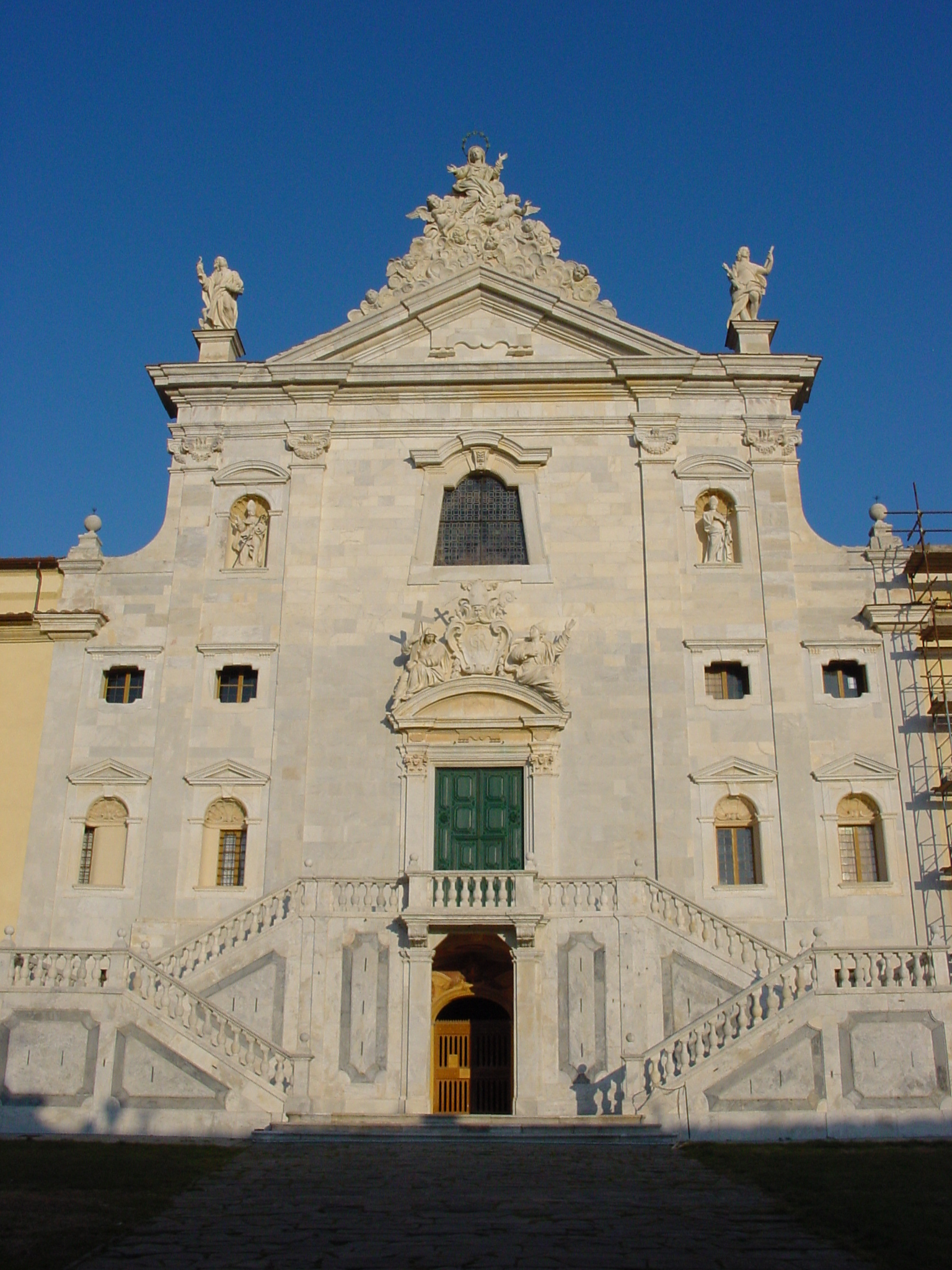 Certosa di Pisa.